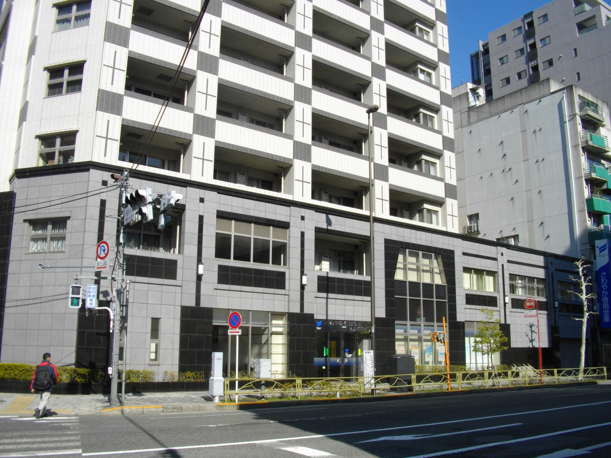 Sawayaka Shinkin Bank Head Shop